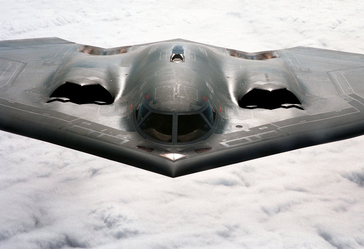 OVER KANSAS -- The B-2 Spirit bomber is a revolutionary blending of low-observable technologies with high aerodynamic efficiency and large payload gives the B-2 important advantages over existing bombers. Its unrefueled range is approximately 6,000 nautical miles. Many aspects of the low-observability process remain classified; however, the B-2's composite materials, special coatings and flying-wing design all contribute to its "stealthiness." (U.S. Air Force photo by Staff Sgt. Mark Olsen)